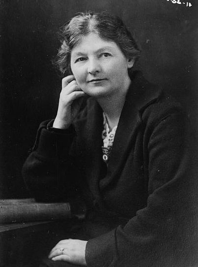 First British woman MP in the House of Commons, Margaret Bondfield